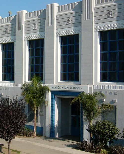 Venice High School — Art Deco Moderne facade of the main building, in Venice/Mar Vista, Los Angeles. Seen from the second story walkway that connects the Main and West buildings to Cunningham Hall.